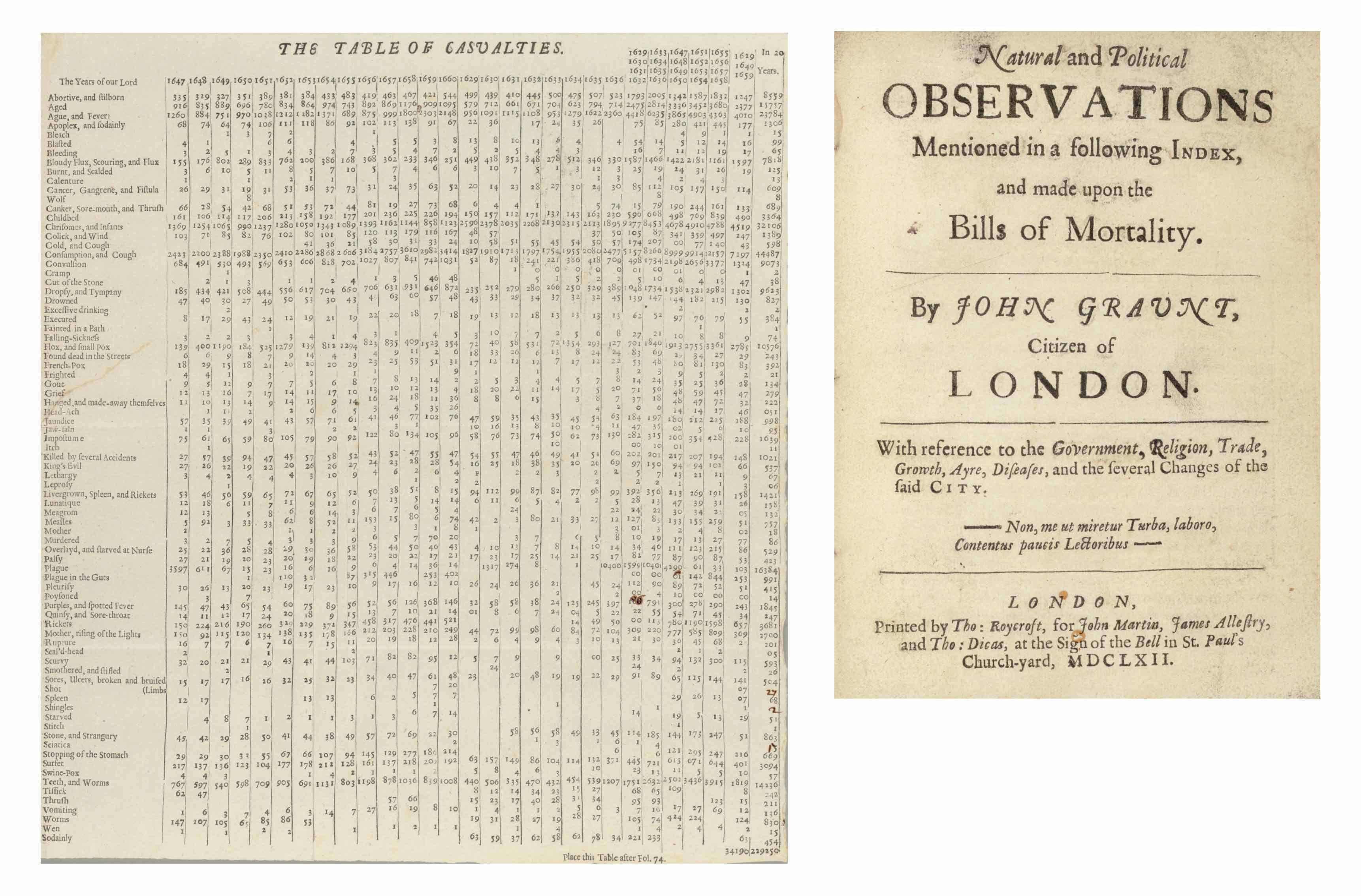 Natural and political observations mentioned in a following index and made upon the bills of mortality...with reference to the government, religion, trade, growth, ayre, diseases, and the several changes of the said city. London: Tho: Roycroft, for John Martin, James Allestry, and Tho: Dicas, 1662.